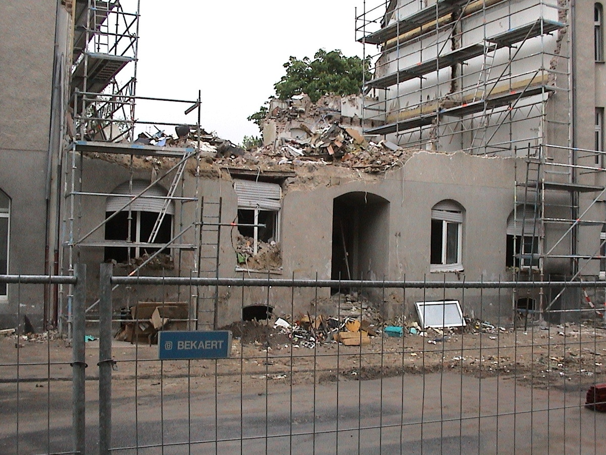 Building destroyed by gas explosion in Cologne